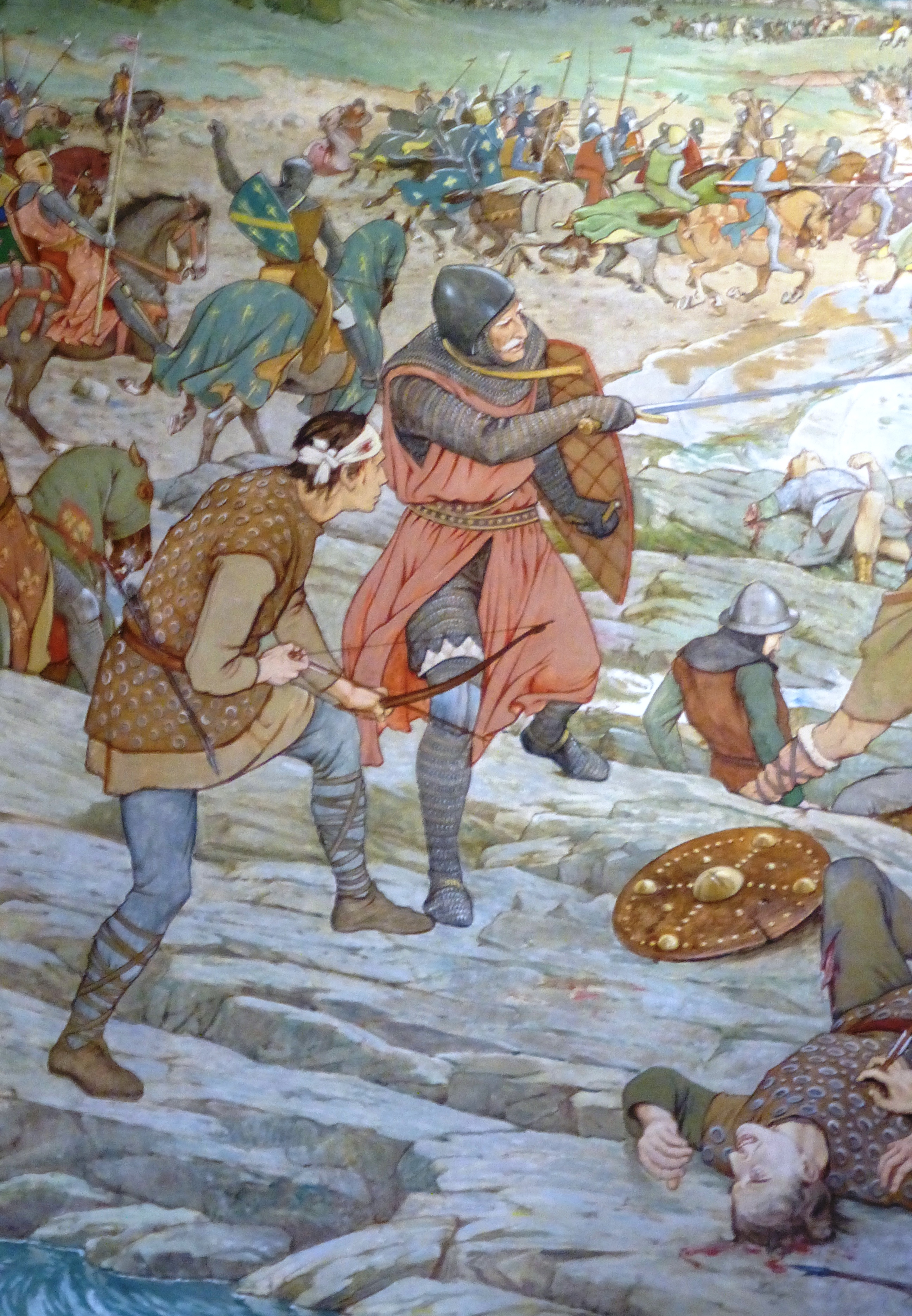 Detail from William Hole's painting The Battle of Largs